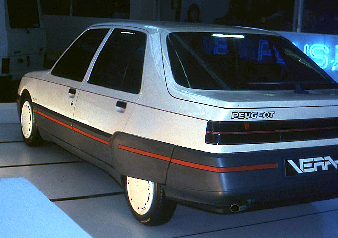 Peugeot VERA Plus (based on the future Peugeot 309) at the 1983 Auto RAI in Amsterdam